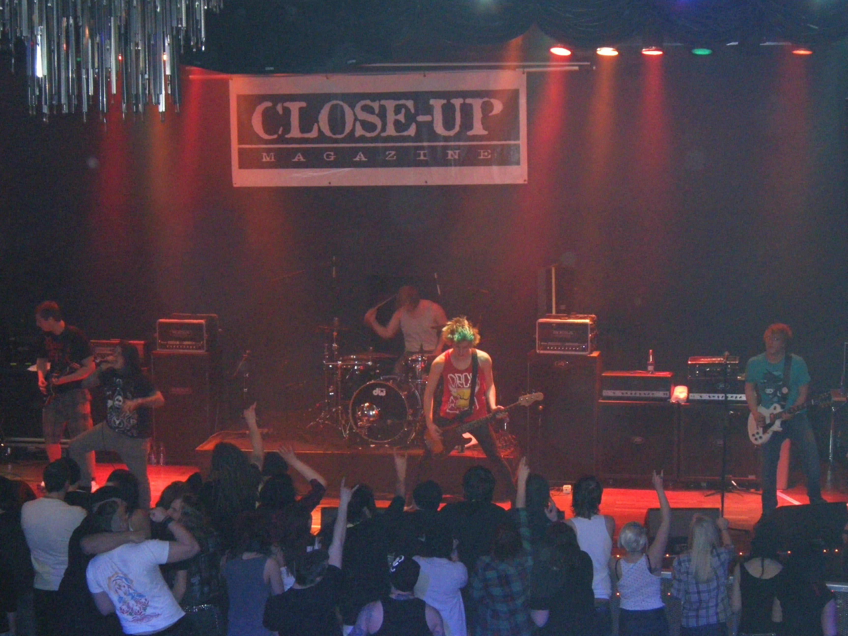 Swedish matal band Adept at The Close-Up Boat February 2011